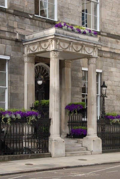 Porch, Chandos House, London W1.